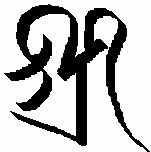 This image was written by Enthousiasme in August 13,2006